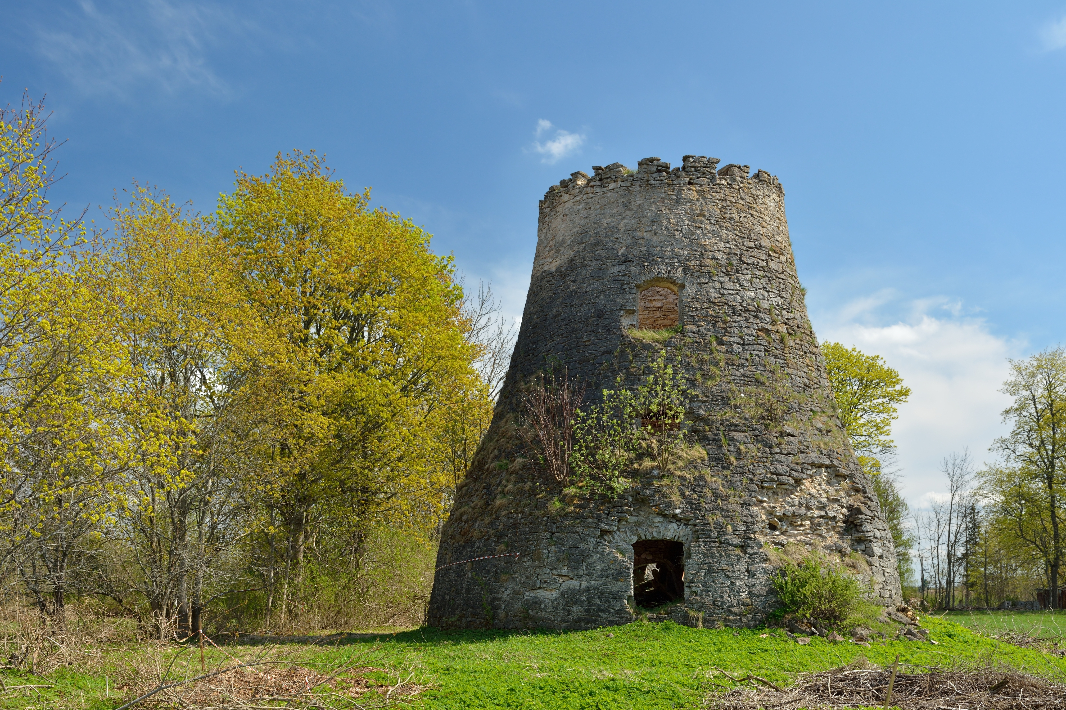 Ärina windmill ruins, built probably in 1886.